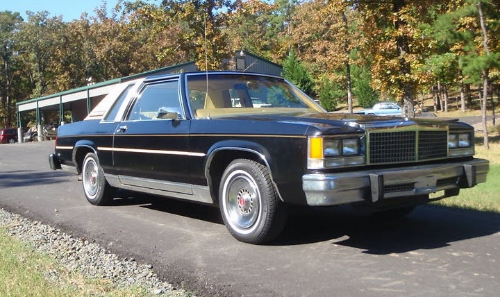 2-door Ford LTD; 1979-1982 model